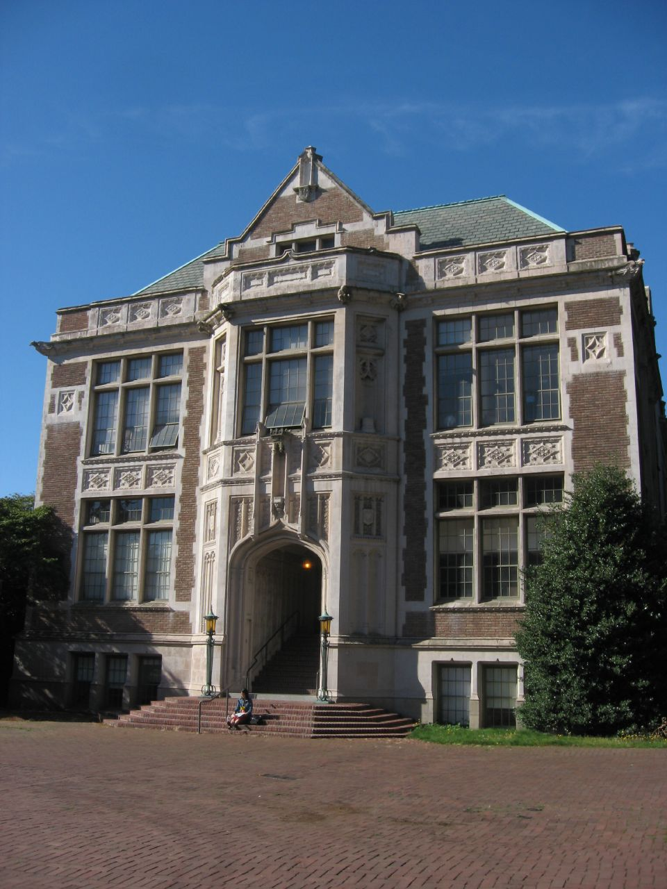 Unidentified building, one of four similar but not identical buildings on the Quad, University of Washington, Seattle, Washington. Each of the four has an entrance facing the path that goes roughly through the center of the Quad along its shorter axis; this is one of those entrances.